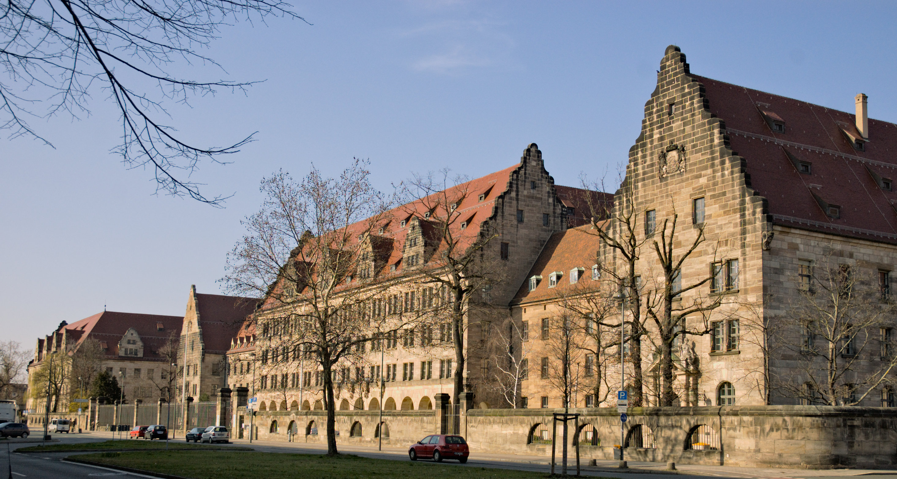 The Justizpalast (Palace of Justice) in Nuremberg